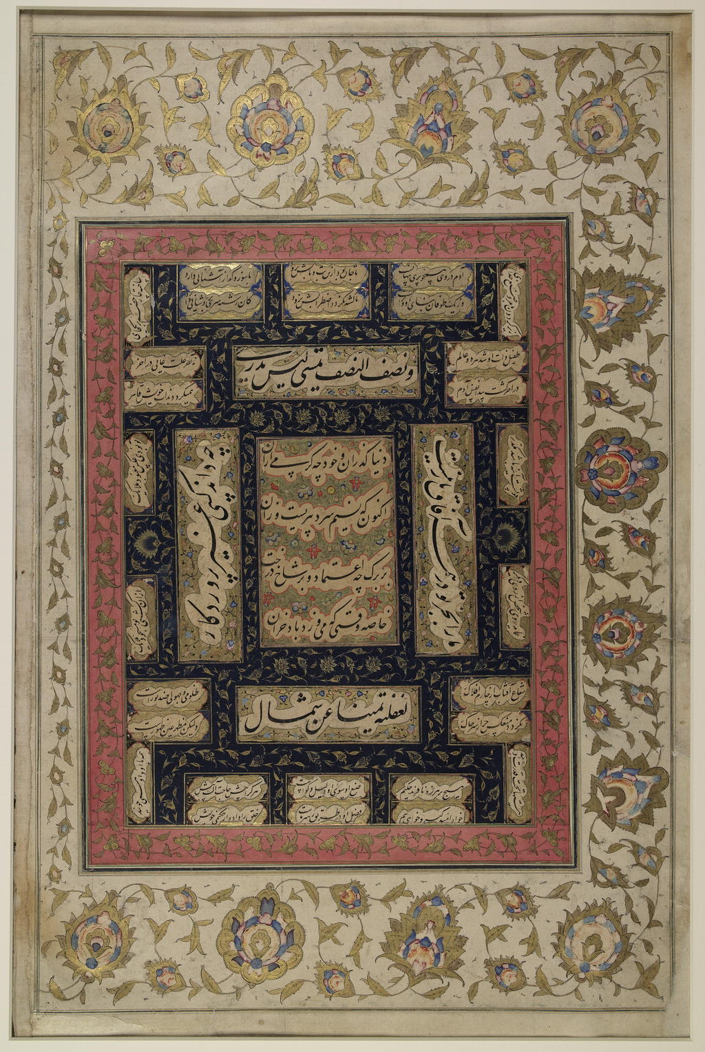 Calligraphic panel of unknown calligrapher with dimensions of the written surface 8.7 (w) x 25.9 (h) cm. Script is nasta'liq. Two lines of Arabic poetry appear in the upper horizontal panels, and two lines of Persian poetry frame the central text panel on the right and left vertical.